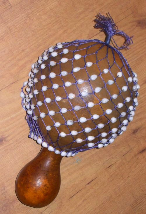 Shekere - African percussion instrument